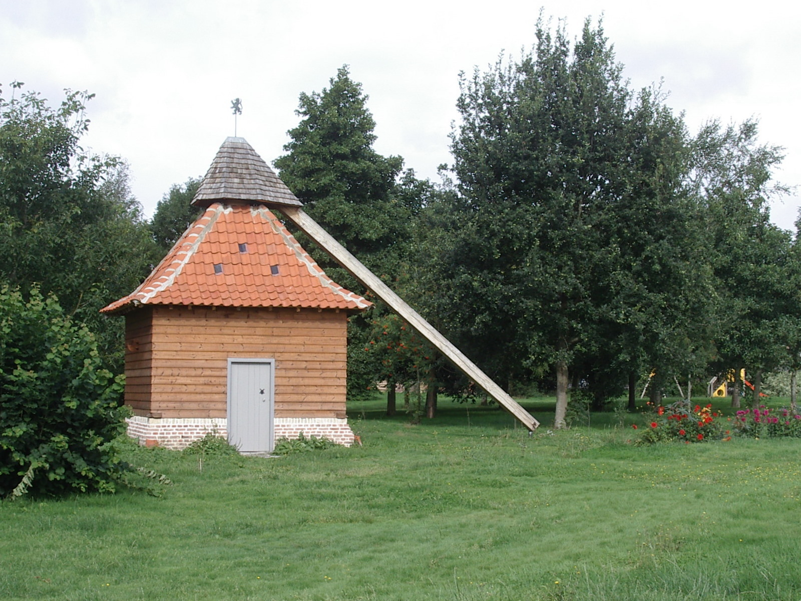 Depicted place: Q84305358